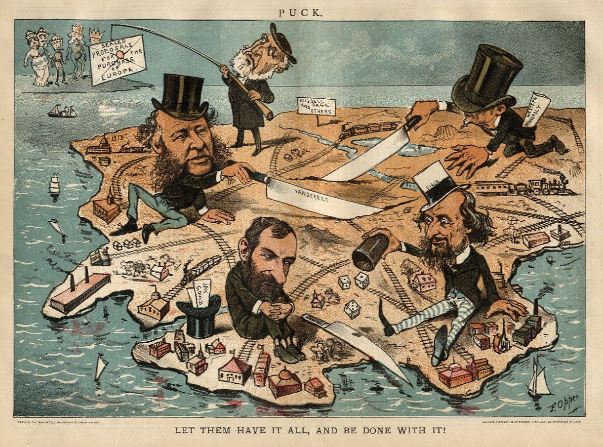 Monopoly Millionaires Dividing the Country. Depicted in the cartoon are William Henry Vanderbilt, Jay Gould, Cyrus West Field, Russell Sage.